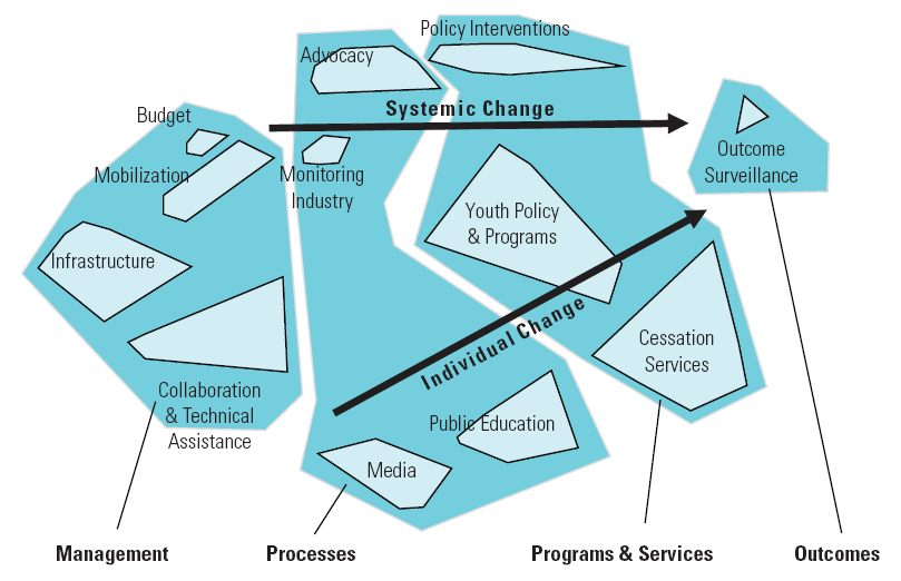 Concept Map Showing Clusters, Cluster Labels, and Interpretations of Dimensions and Regions